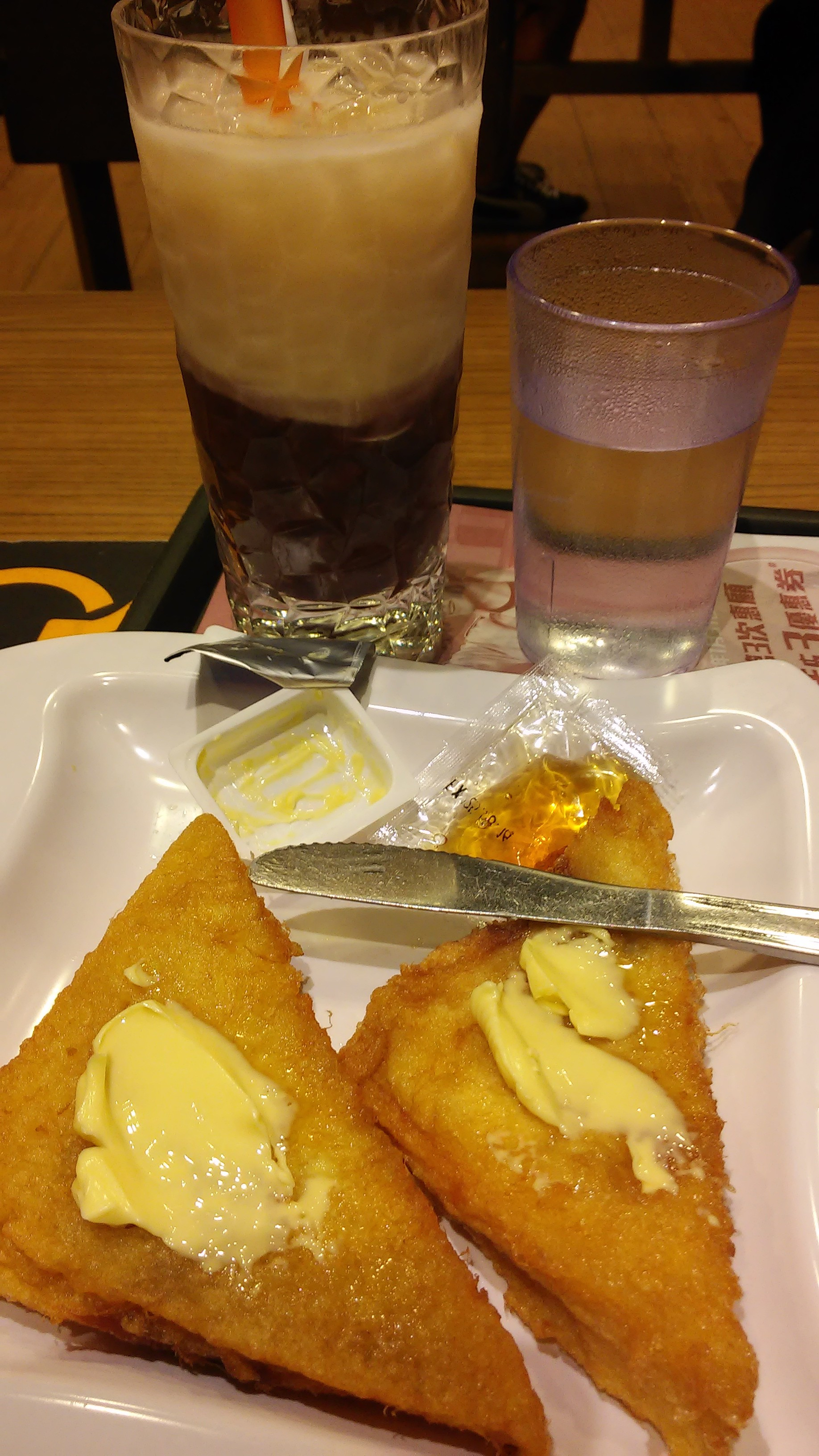 Aternoon tea set, Cafe De Coral Restaurant, Oct-2015